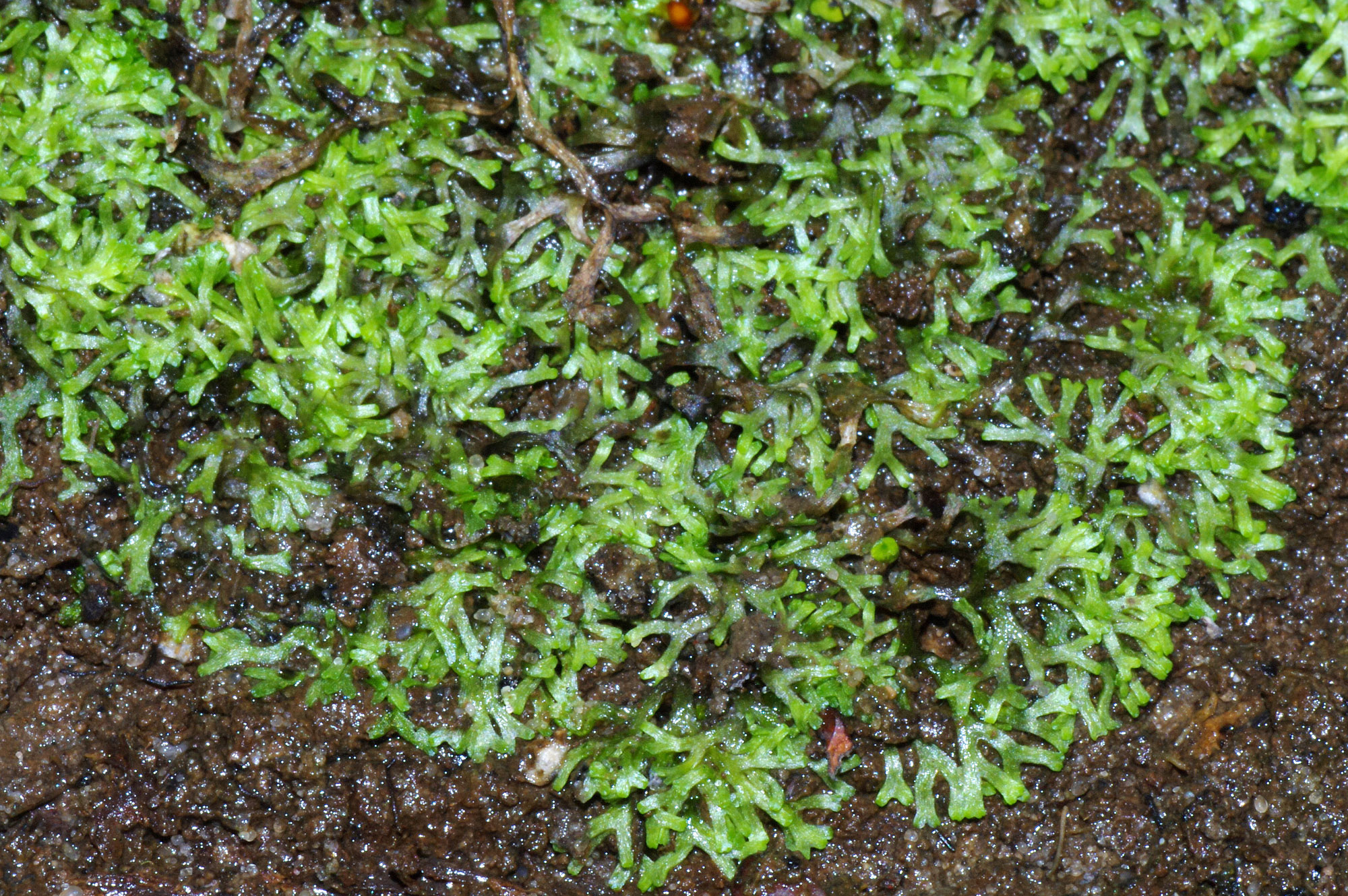 The (normally floating) liverwort species Riccia fluitans with a terrestrial form/stage growing on wet sand.